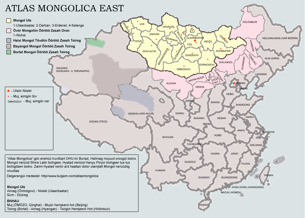 Atlas of Eastern Mongols. The map is being in process. Latest version will include Buryatia and Kalmykia; county-level subjects within the PRC. Note that the current version is a draft with some major errors: No Govi-Sümber province of Mongolia and no Wuhai prefecture of Inner Mongolia is present. The map uses Latin Mongolian.